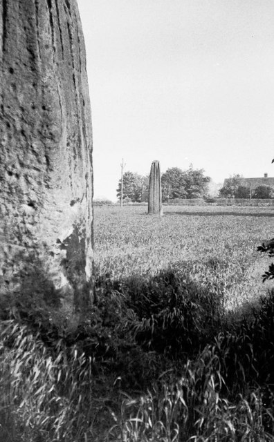 Devil's Arrows, Boroughbridge 1975. Inspired by Alfred Watkins' "The Old Straight Track" and "Mysterious Britain" by Janet and Colin Bord, we visited these ancient stones which have a timeless feeling to them, undoubtedly part of a religious and social culture which no person has so far been able to explain to the modern world.